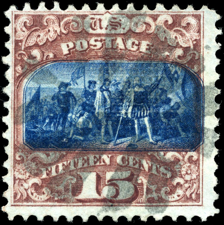 United States 15-cent postage stamp of 1869